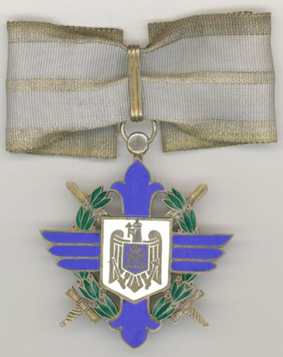 Order of the Aeronautical Virtue, Commander, 1930 (obverse)